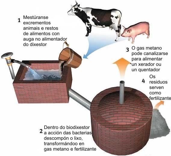 production of biogas in a biodigestor